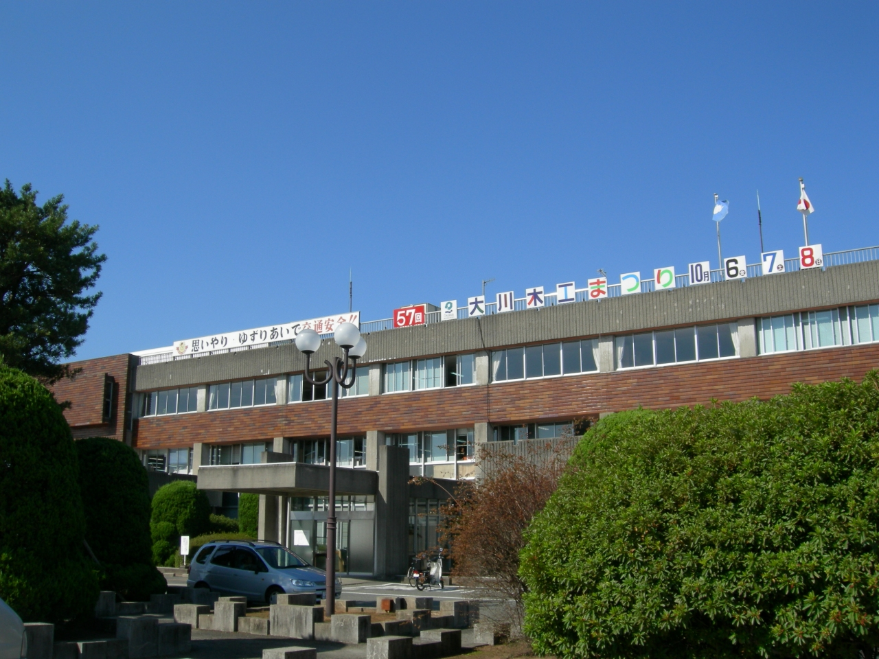 City Office of Okawa, Japan.